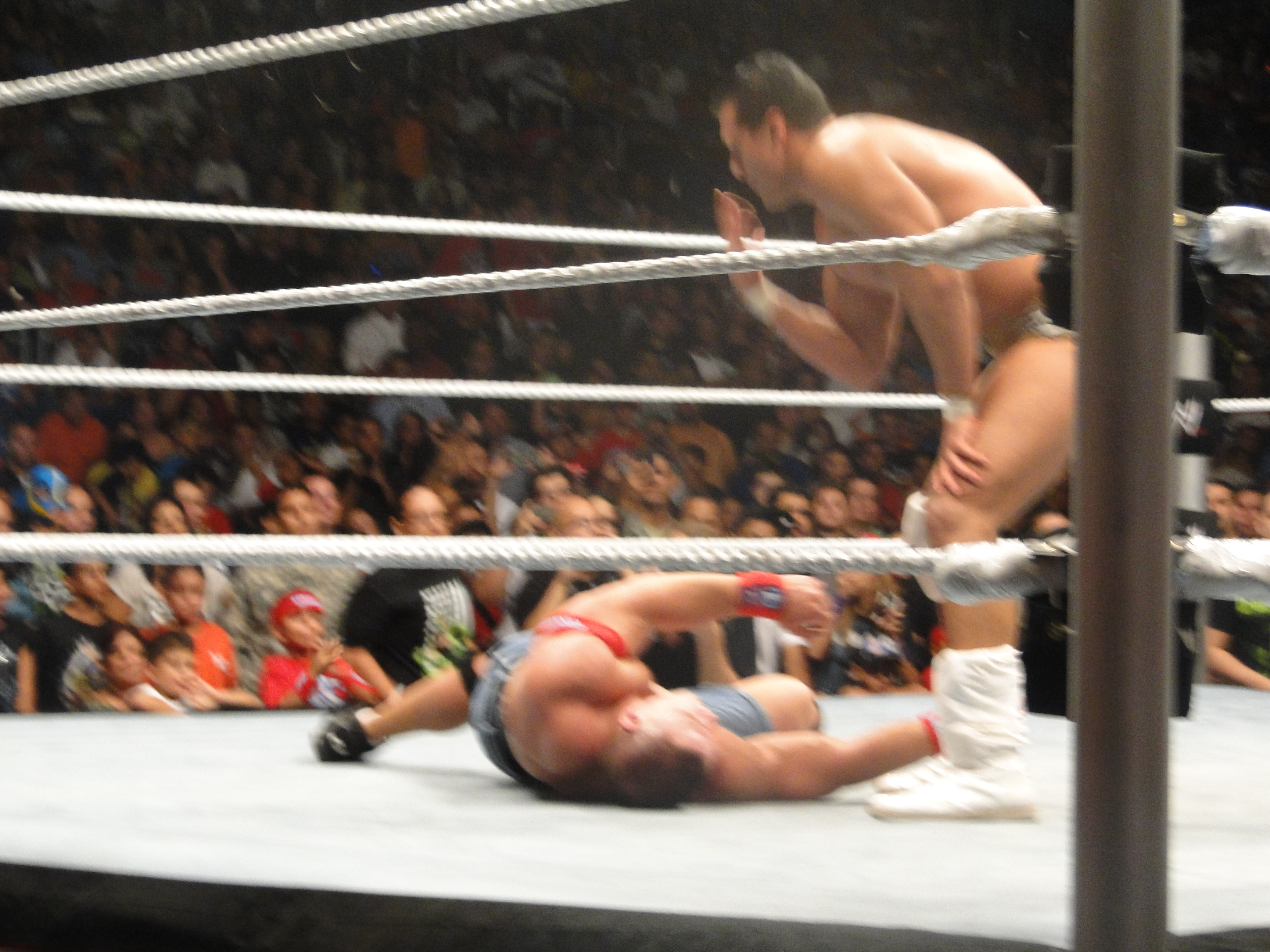 Alberto Del Rio mocking John Cena.